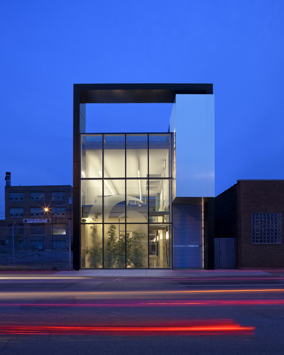 Hyde Park Bank Investment Real Estate Loan Processing Center, Photo: Barbara Karant, Karant + Associates.